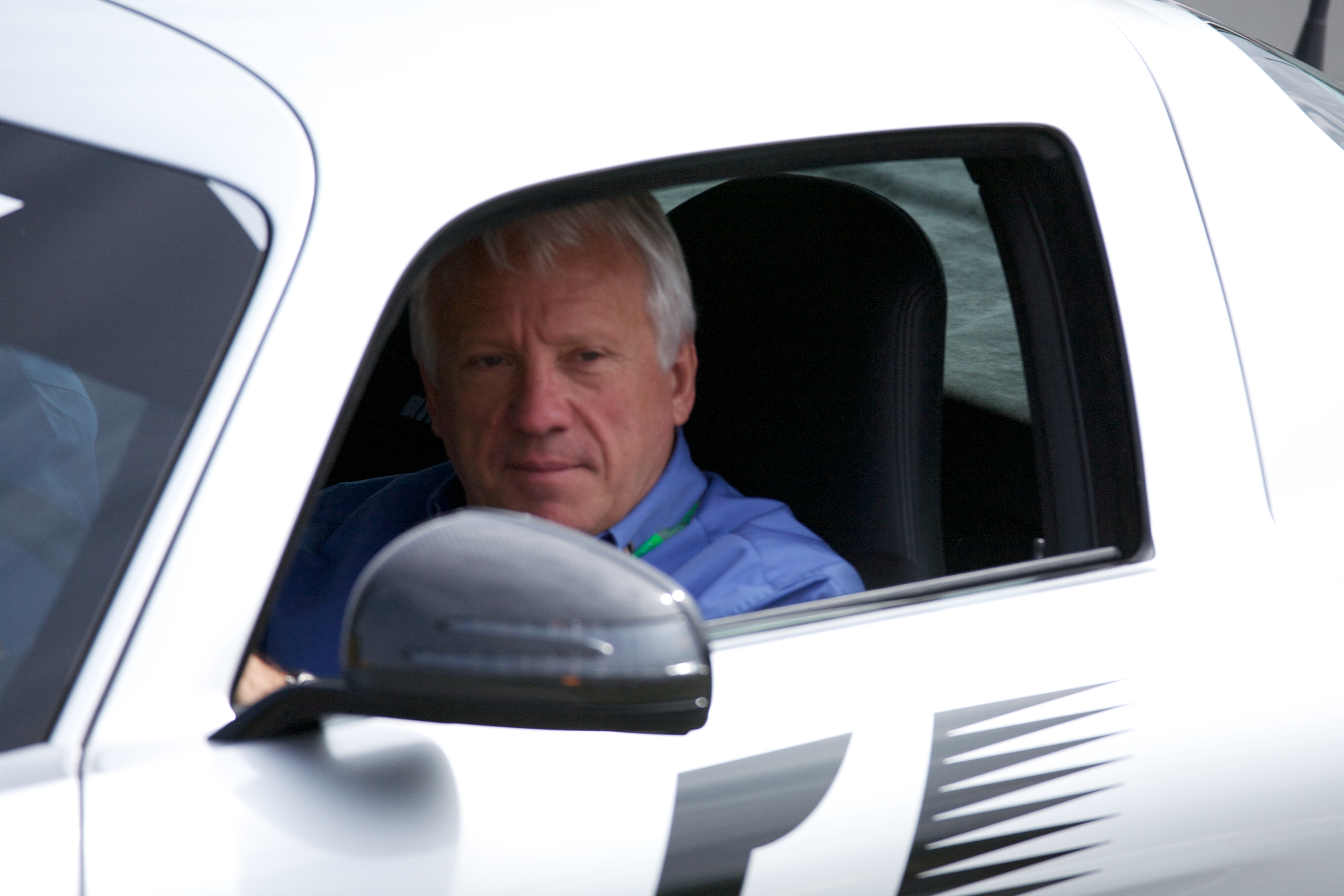 Charlie Whiting, Formula 1 Race Director and Safety Delegate, at the Canadian Grand Prix in Montreal on Saturday 11 June 2011.